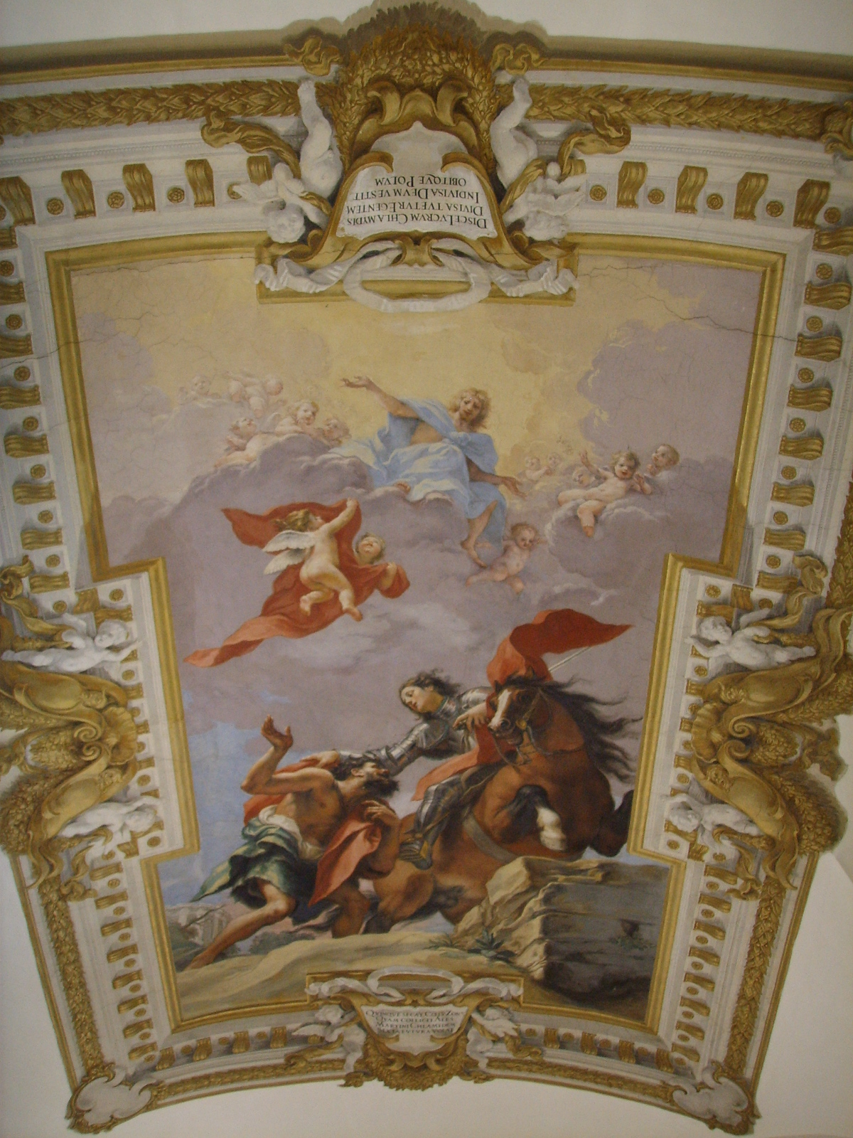 Palazzo_di_San_Clemente,_ library frescoed rooms. See filename for room ref. number Frescos of XVII century by Baldassarre Franceschini, better known as Il Volterrano in Florence